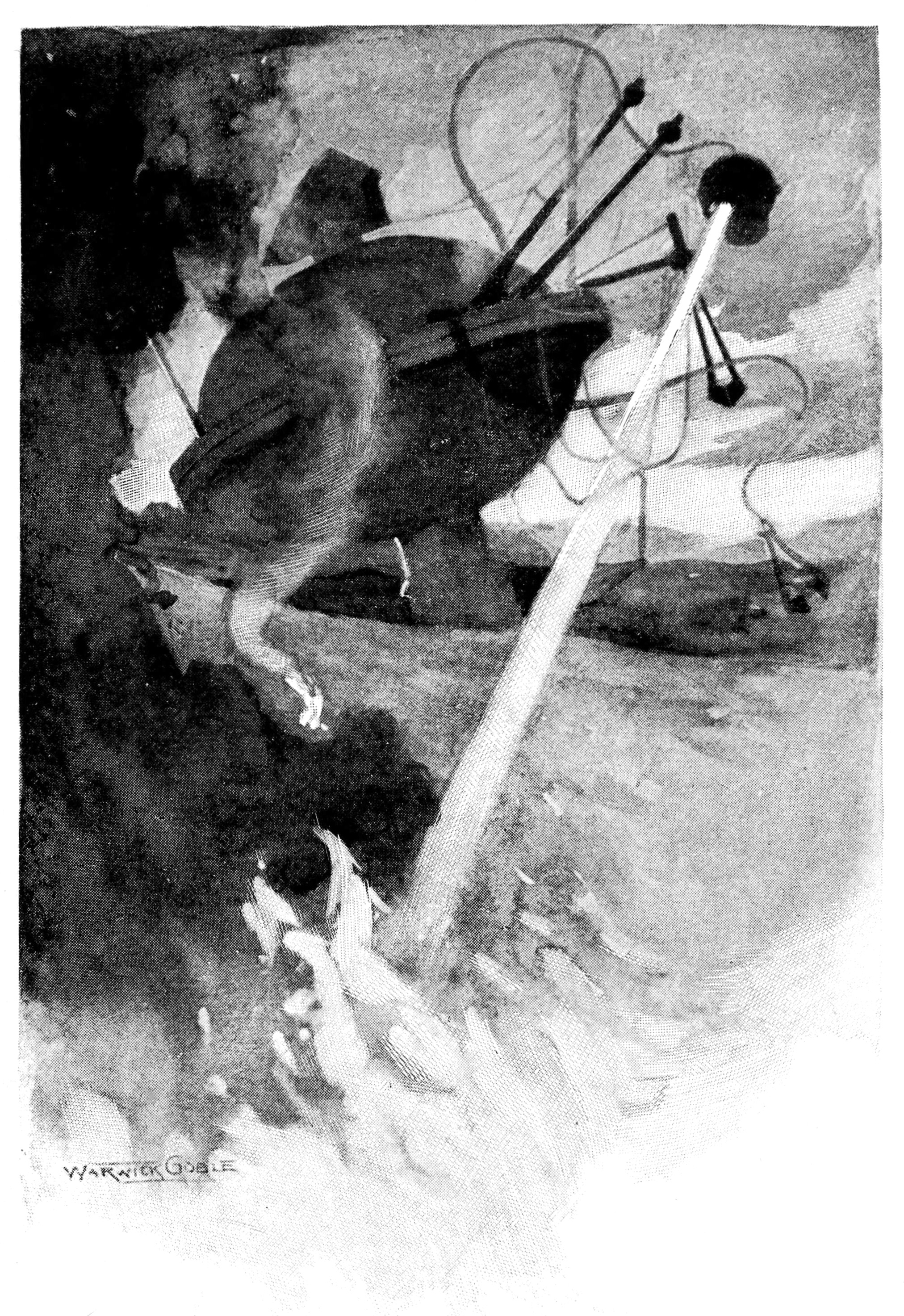 pg 59 of War of the Worlds.